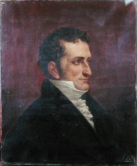 Jean Itard, french physician